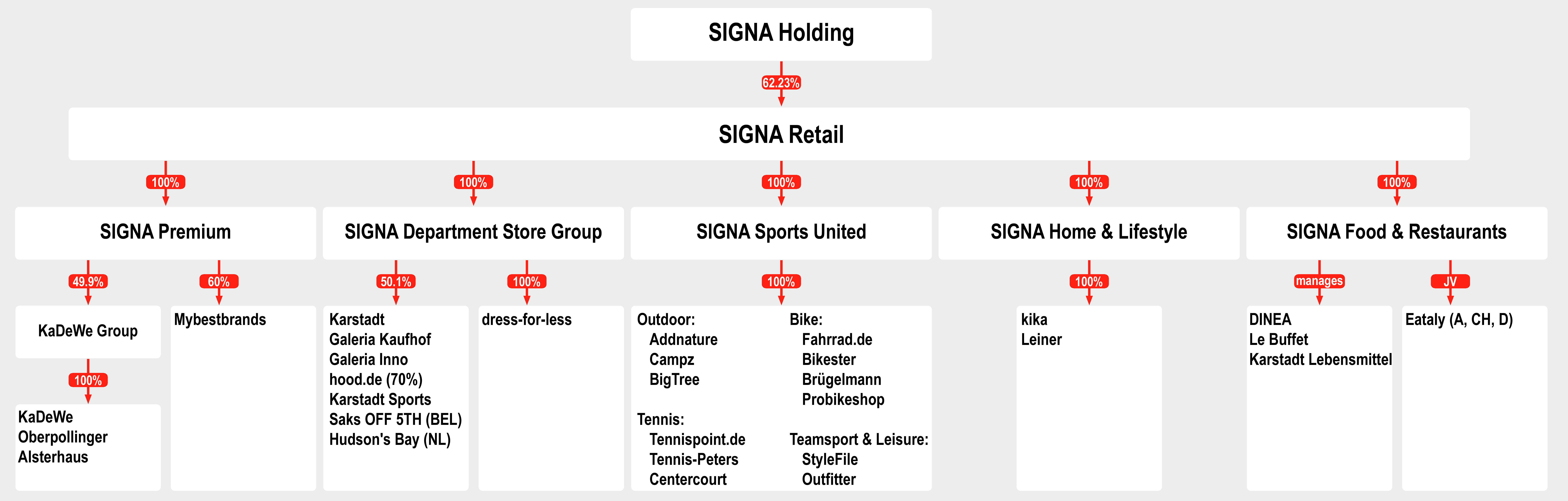 Corporate structure of Signa Retail Sources: and